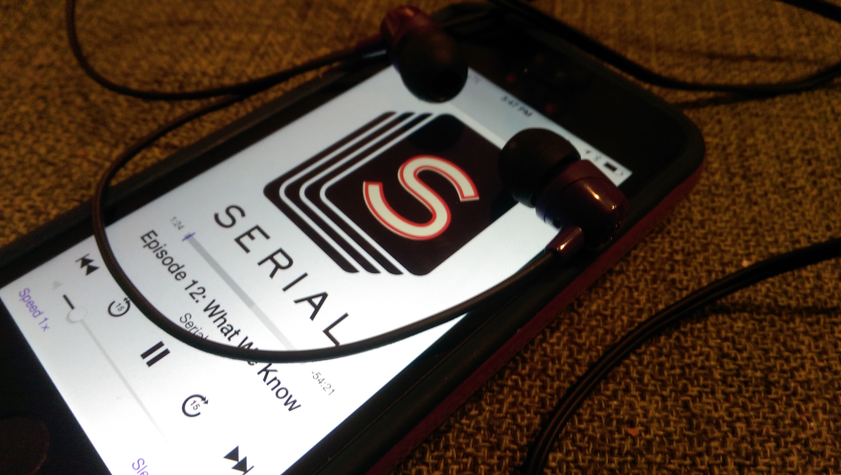 The Serial podcast being played on a smartphone, through headphones.